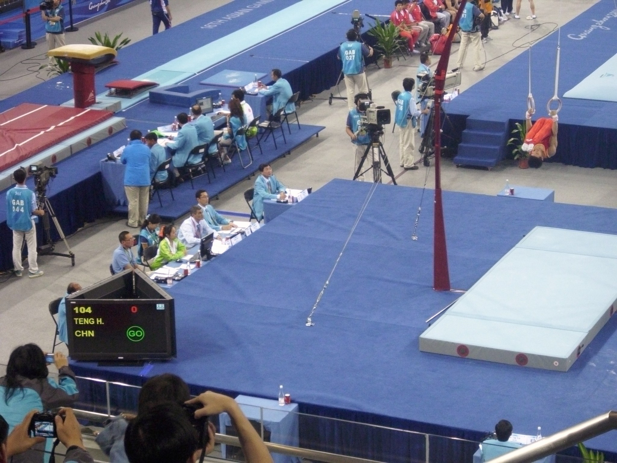 Teng Haibin in 2010 Guangzhou Asian Games